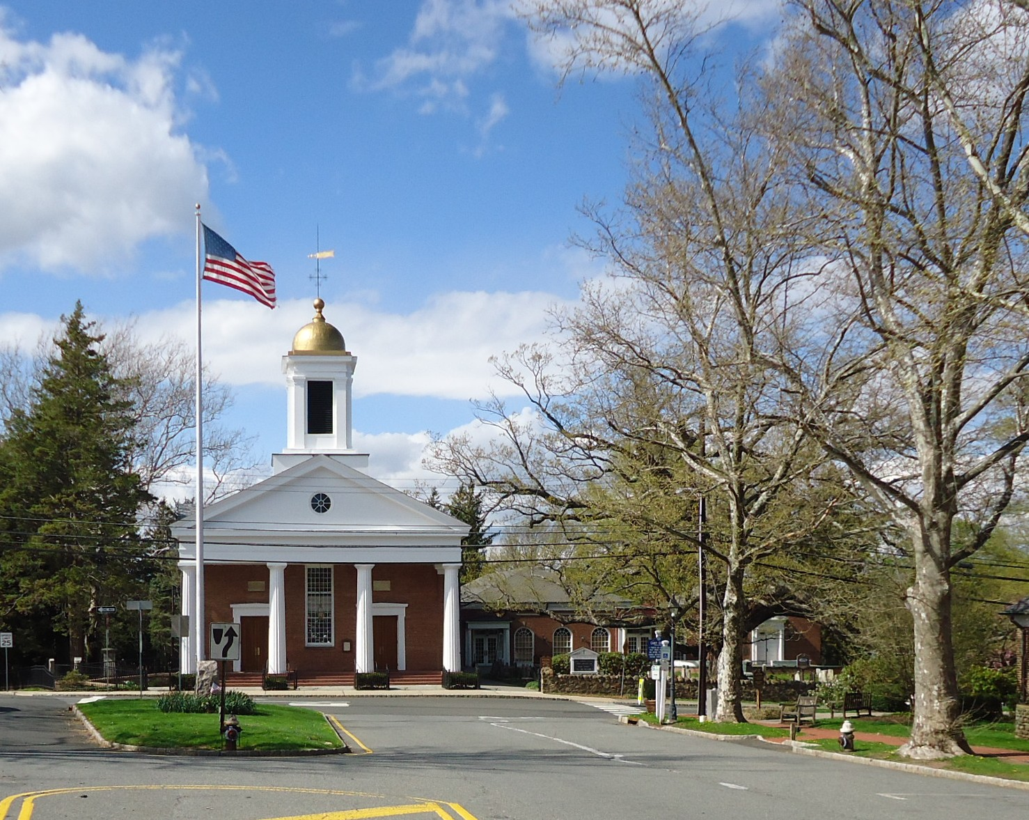 Cropped version of scene in Basking Ridge, New Jersey, with flag and church.